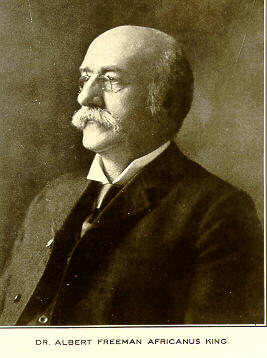 Albert Freeman Africanus King (1841 - 1914) physician who was one of the earliest to suggest the connection between mosquitos and malaria.